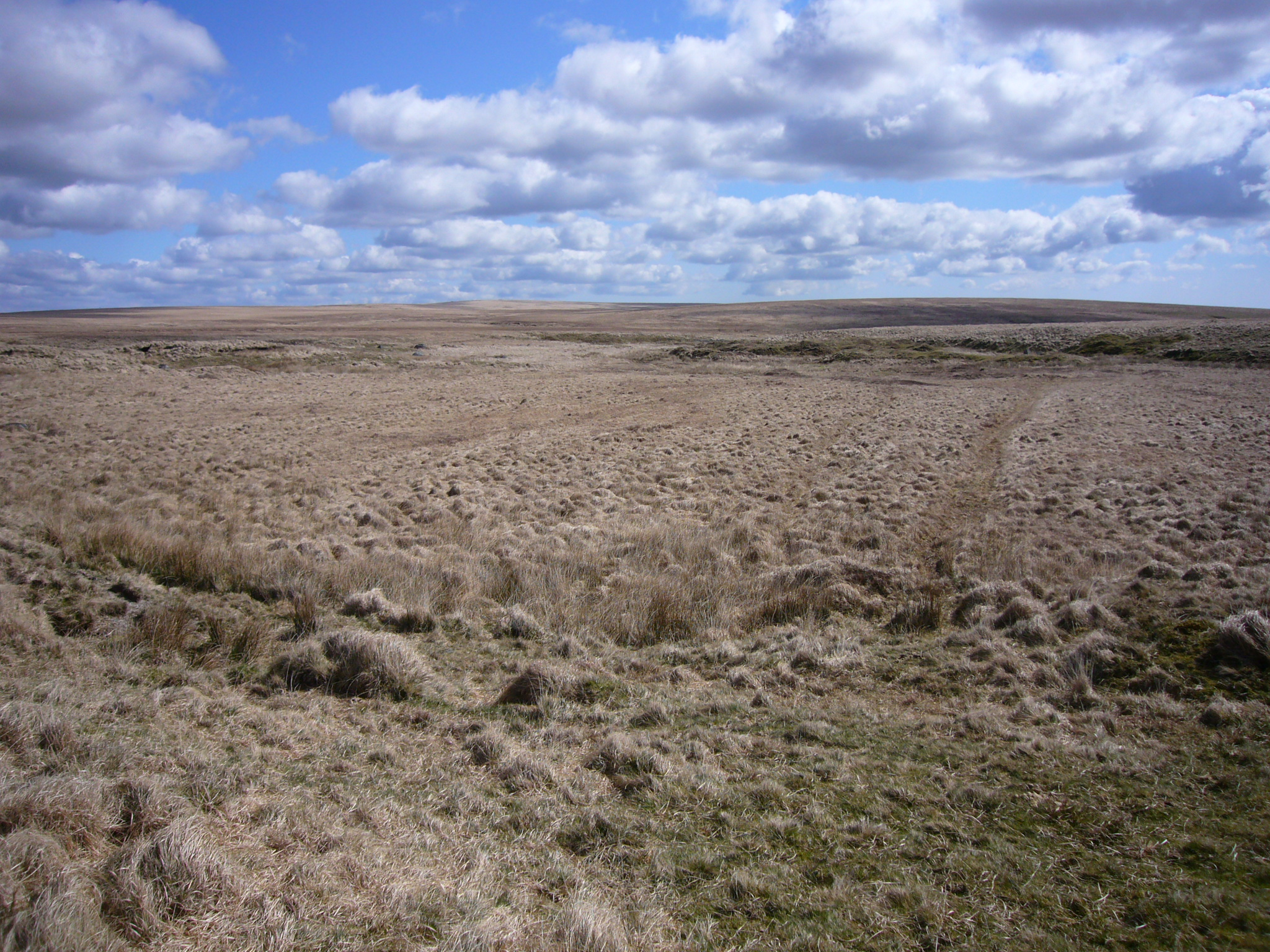 Duck's Pool in central southern Dartmoor. No ducks, no Pool! The area has been extensively worked by tinners.